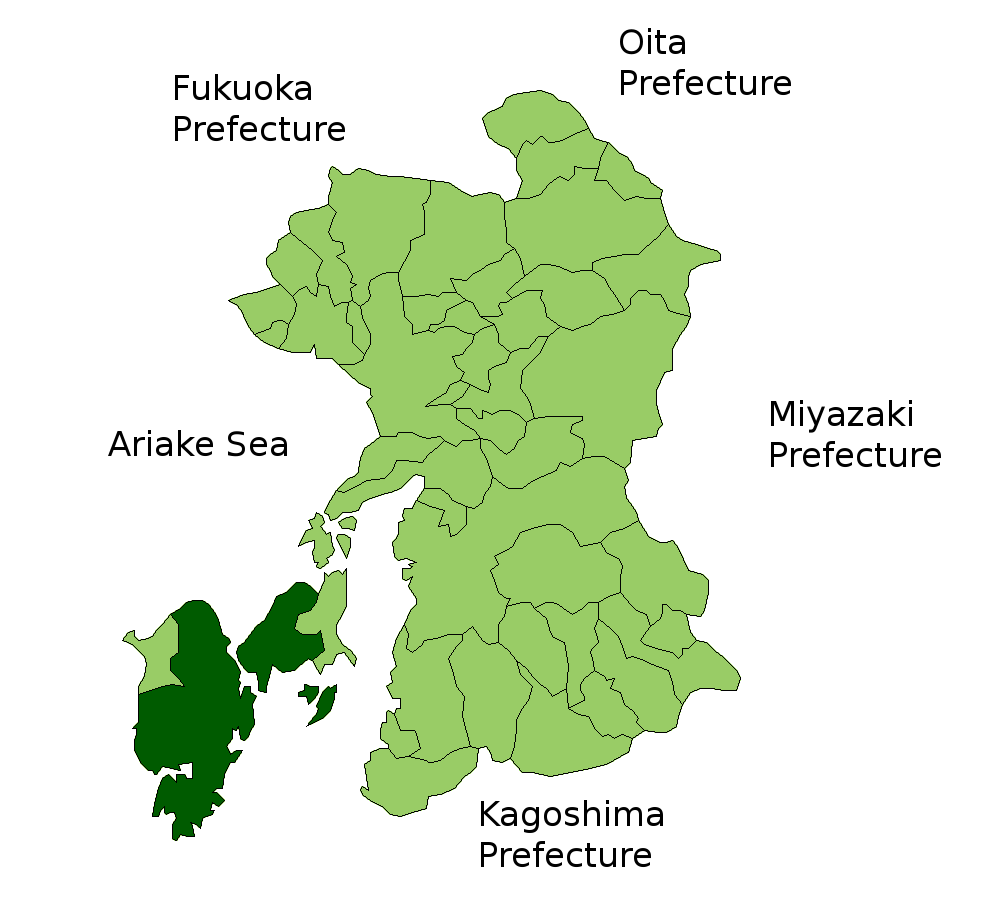 The location of Amakusa in Kumamoto Prefectuur, Japan